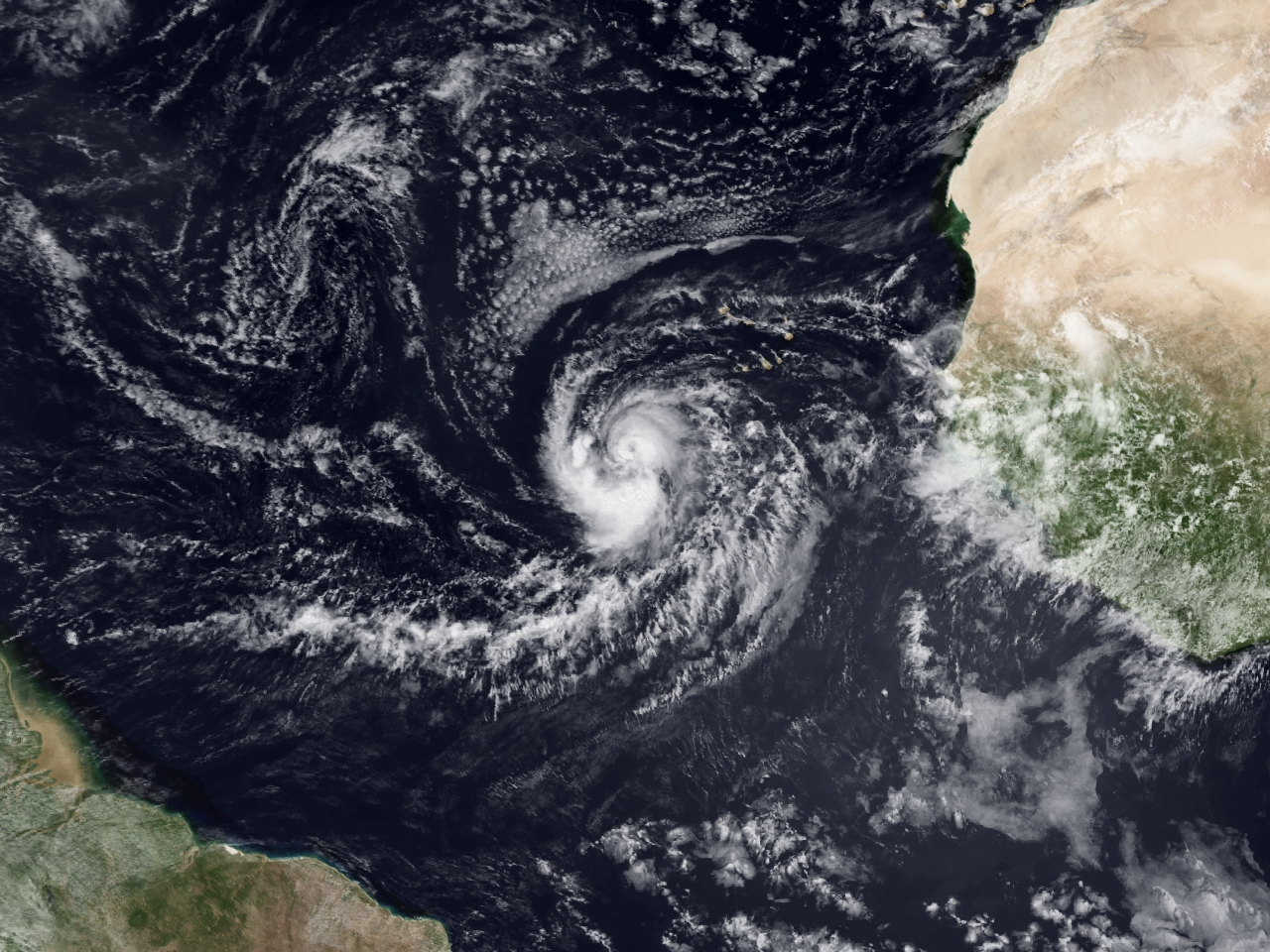 Tropical Storm Fred displaying the first signs of an eye wall on September 8.